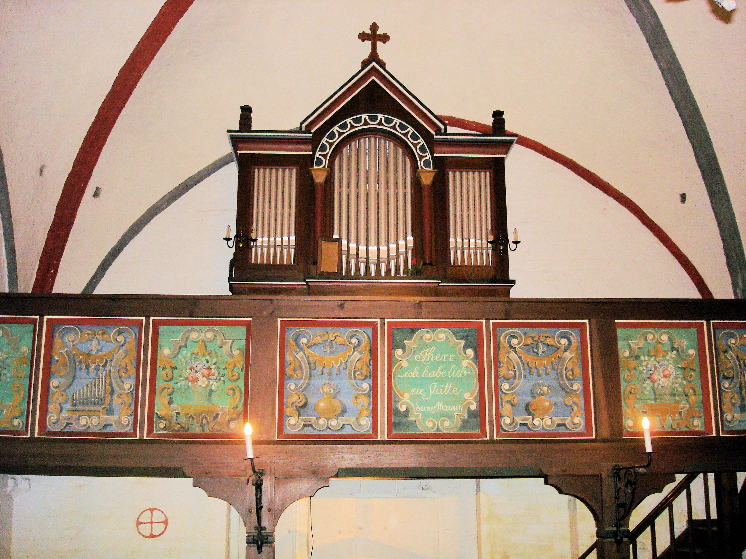 Organ in the church in Stäbelow, Mecklenburg, Germany